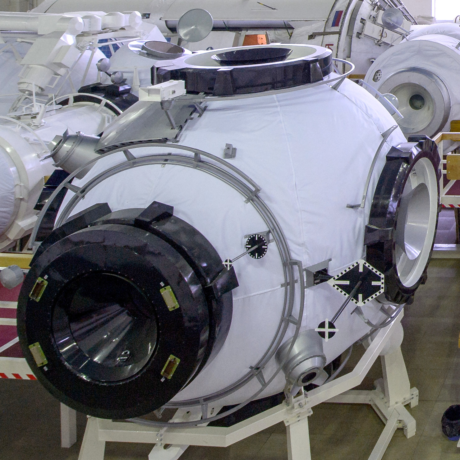 Mockup of Uzlovoy Module (Pritchal) in the Space Station Training Mockup Facility at the Gagarin Cosmonaut Training Center (GCTC).